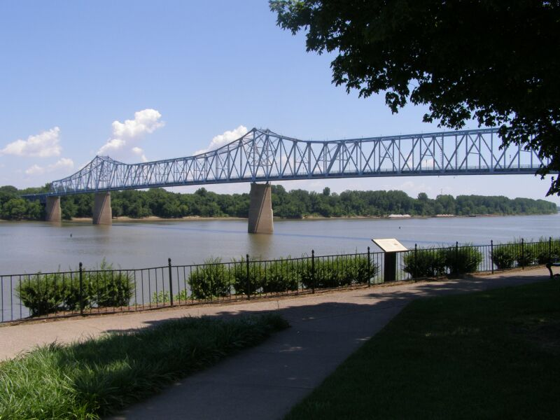 Glover Cary Bridge, over the Ohio River (Old US 231)